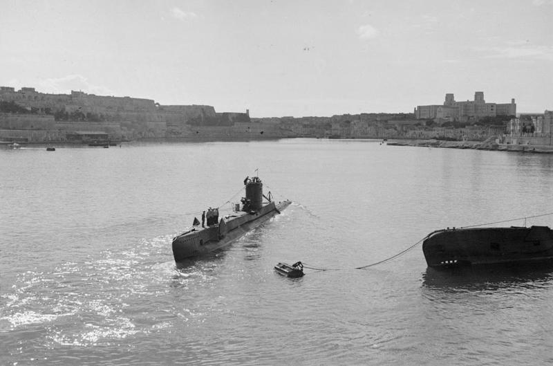 Submarines and Submarine Officers. 26 and 27 January, Malta Submarine Base. HMS UNA leaving Malta on patrol.